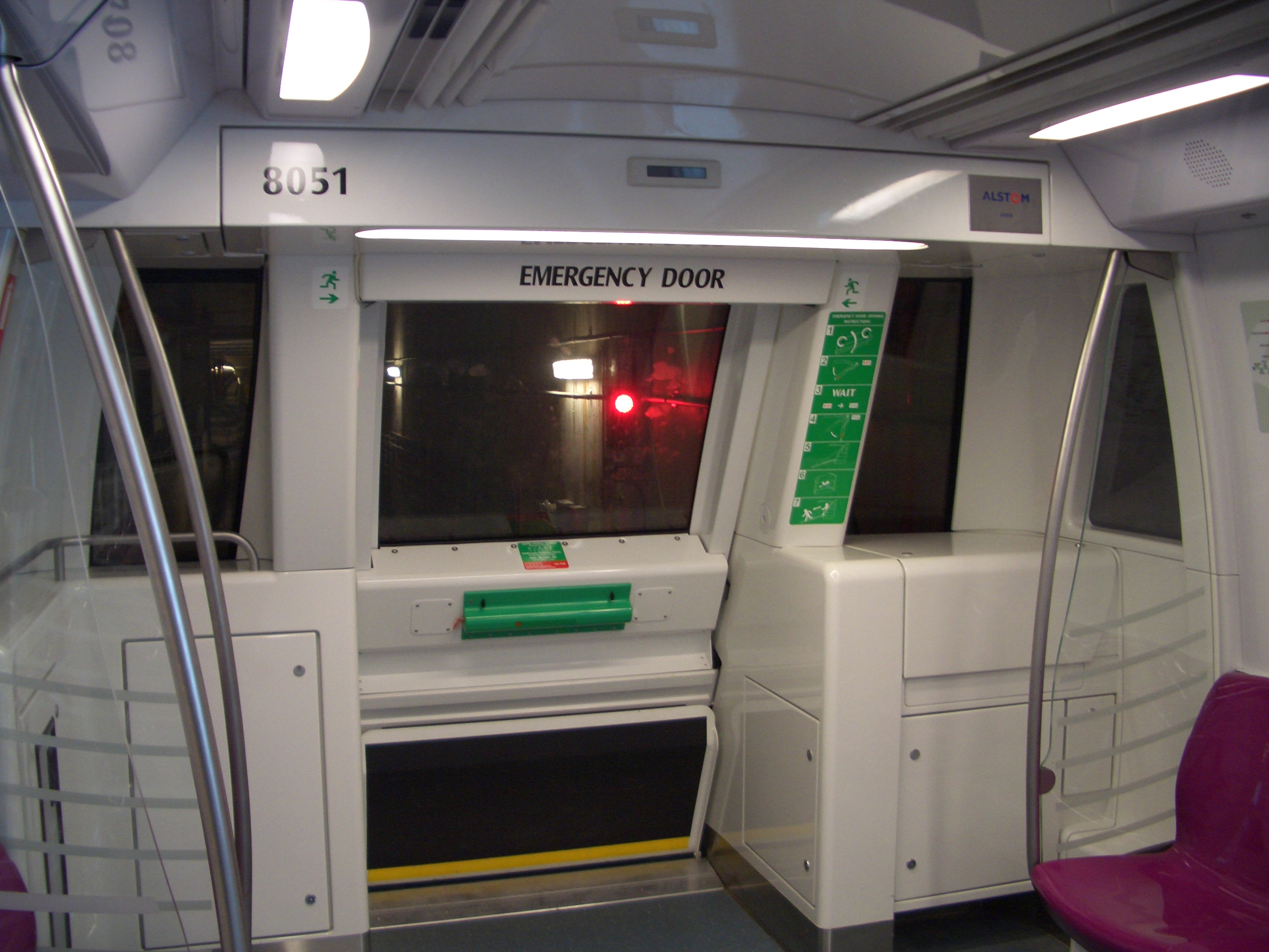 Emergency exit of the train on Circle Line.